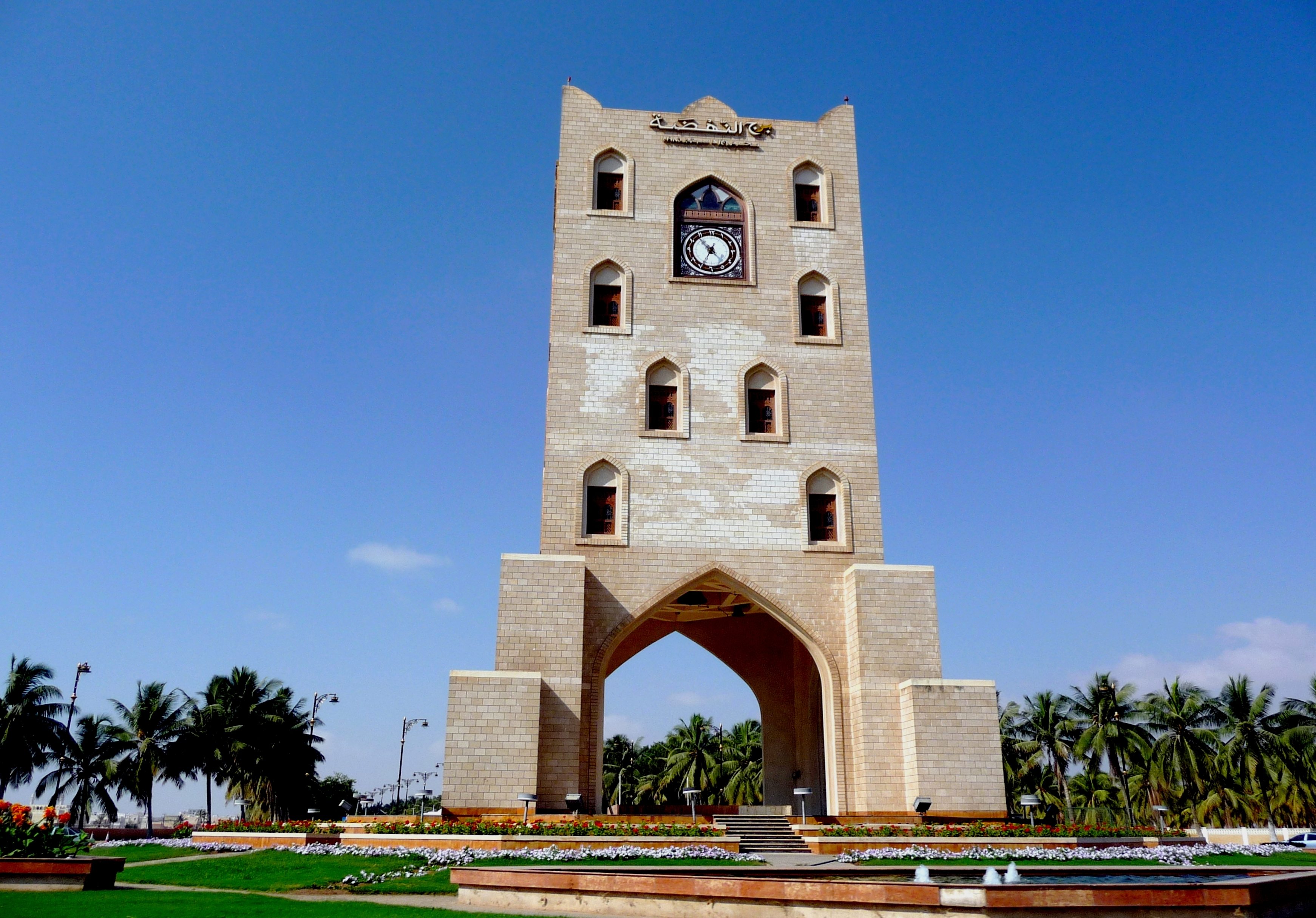 Salalah clock tower